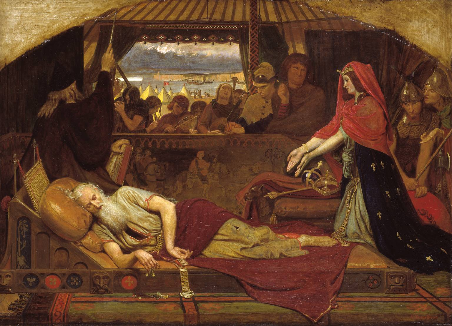 Oil paint on canvas This is one of three paintings by Ford Madox Brown illustrating Shakespeare’s play King Lear. This scene shows Lear with his youngest daughter, Cordelia, on the right. Lear’s doctor orders the musicians to play more loudly and awaken him. But Cordelia is anxious that her ailing father should sleep and she speaks the lament inscribed on the painting’s frame. In the play Lear divides his kingdom between his other two daughters and their husbands. But, after a painful period of self-discovery, he realises that Cordelia is his only true loving child.